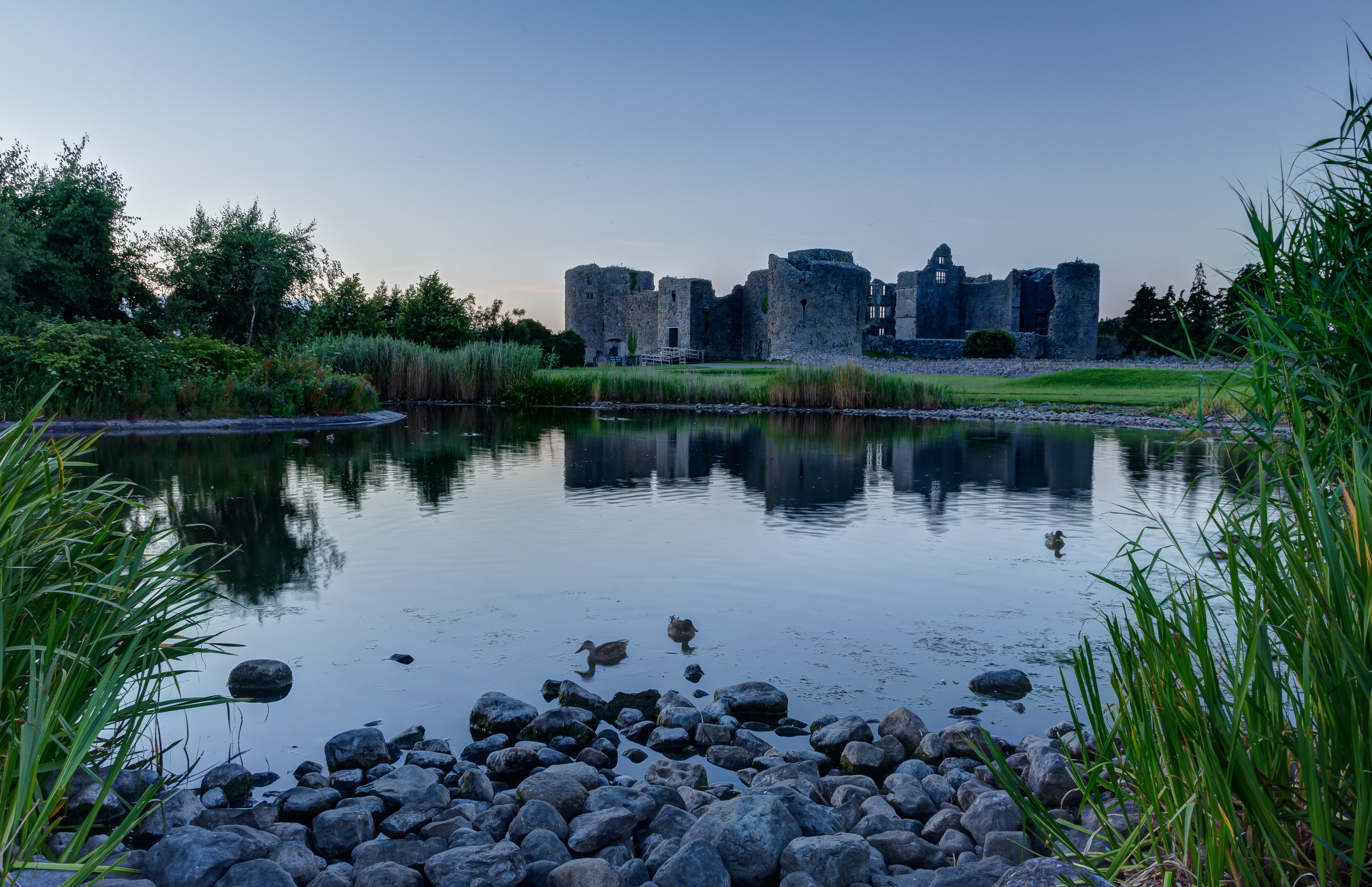 View of Roscommon Castle